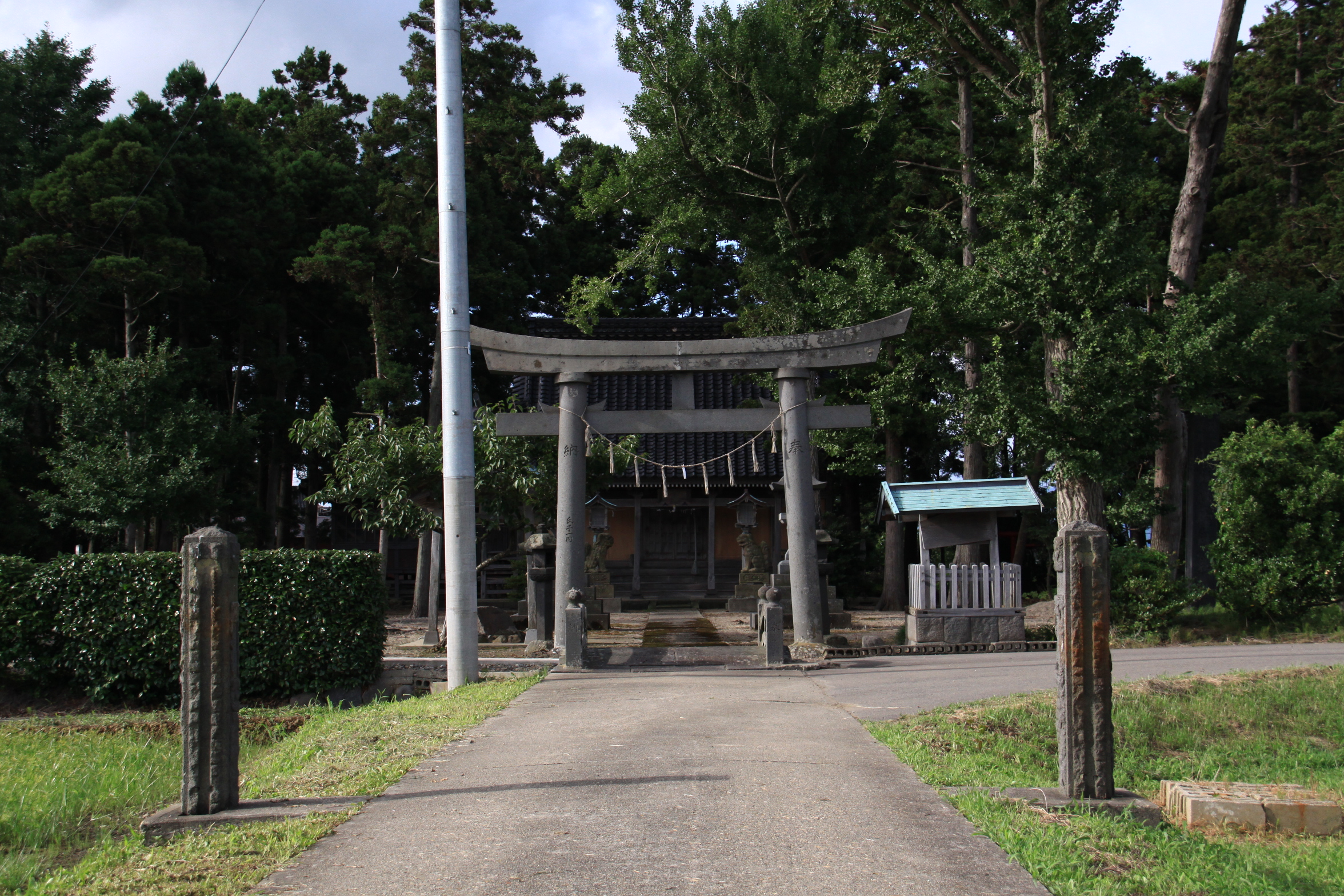 Kinowa jinja Gate